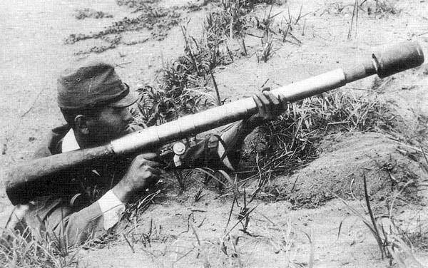 A Type 5 45 mm AT (Anti Tank) recoilless gun of the Imperial Japanese Army, 1945